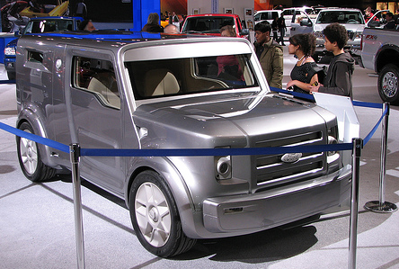 The Ford SYNUS concept car at the 2007 Canadian International AutoShow